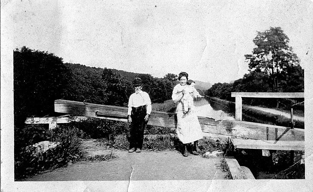 At lock 56, Thomas Donegan (Lockkeeper) with Ann Gotner and Anna Kent. Historical society says that Thomas Donegan was a boatman, before becoming a lockkeeper, and later raised 13 children. Mile 136.21 on the Canal.